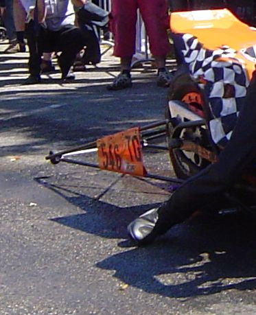 Motorcycle parts; wheelie bar.